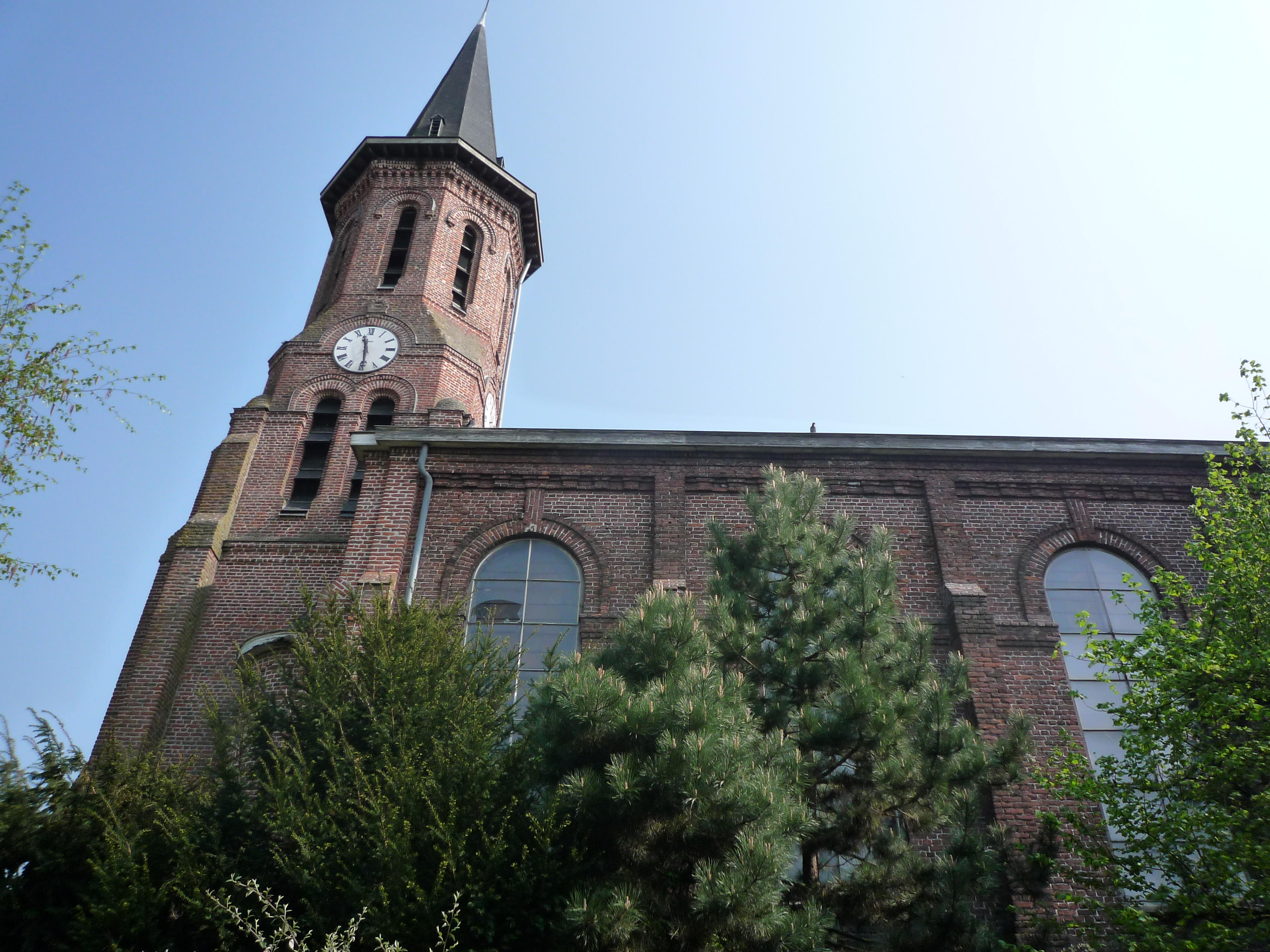 Church of Rieulay, France.